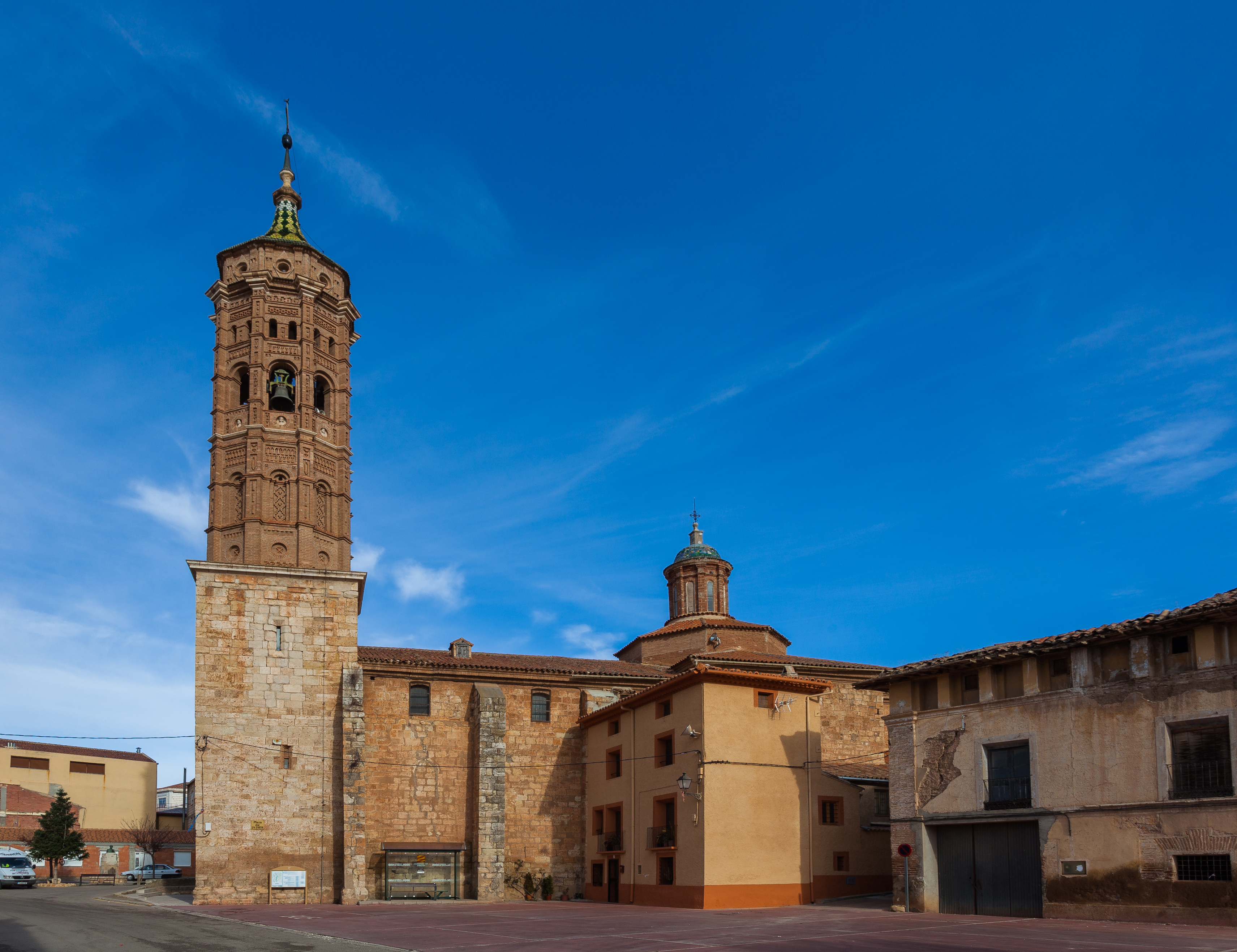 Church of the Ascension, Báguena, Teruel, Spain